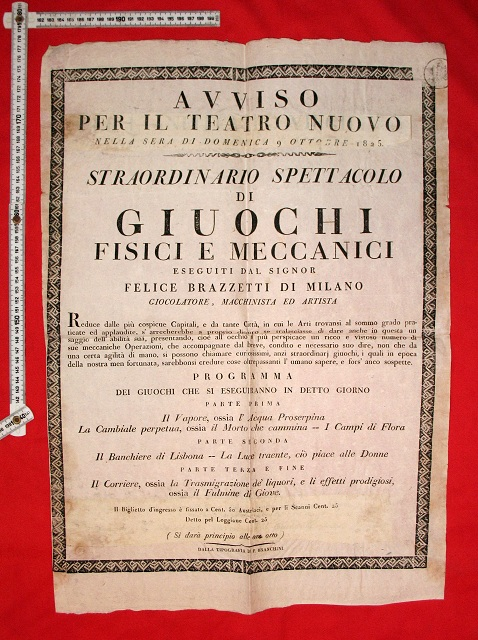 Historical poster preserved in the historic Teatro Sociale di Mantova on the evening of October 9, 1825 by Felice Brazzetti.